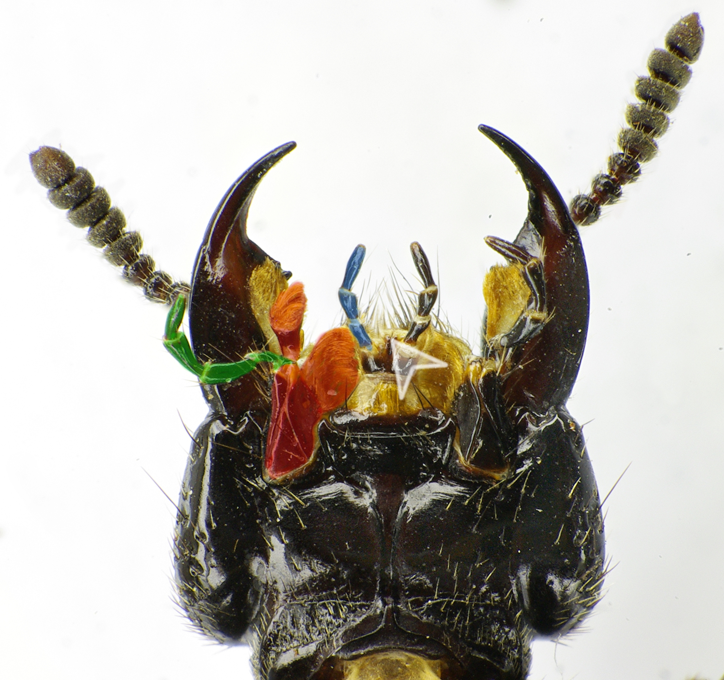 underside of head of Creophilus maxillosus, partly coloured green: maxillar palp red: maxilla blue:labial palp white arrow tip: tip of labium